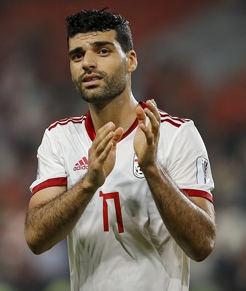 China PR-Iran Quarter-finals, 2019 AFC Asian Cup